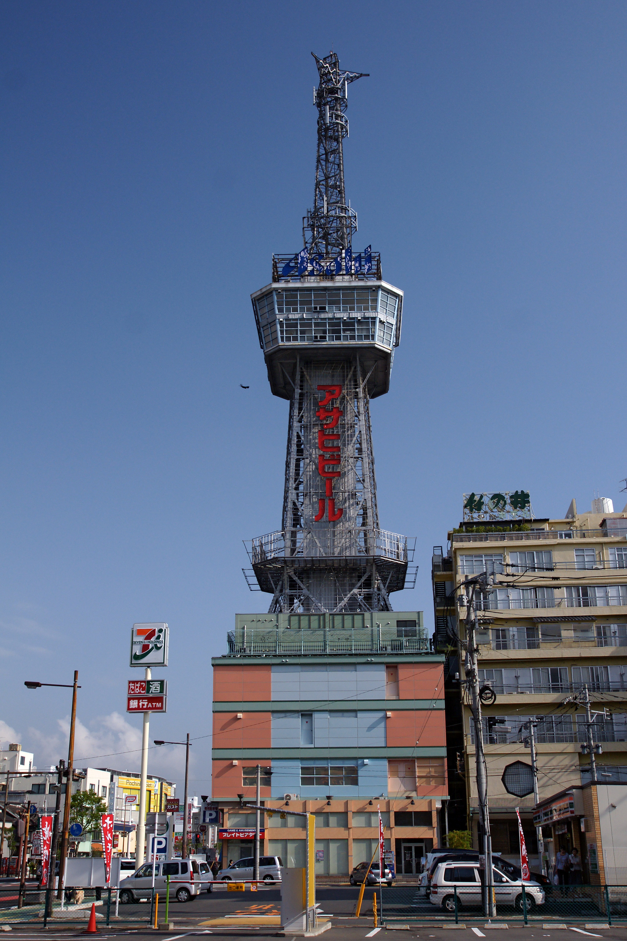 Beppu Tower in Beppu Onsen, Beppu, Oita prefecture, Japan